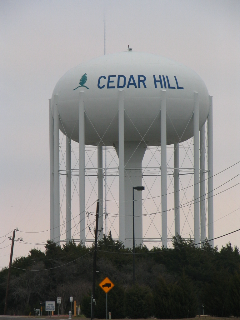 I took this picture on January 27, 2007.